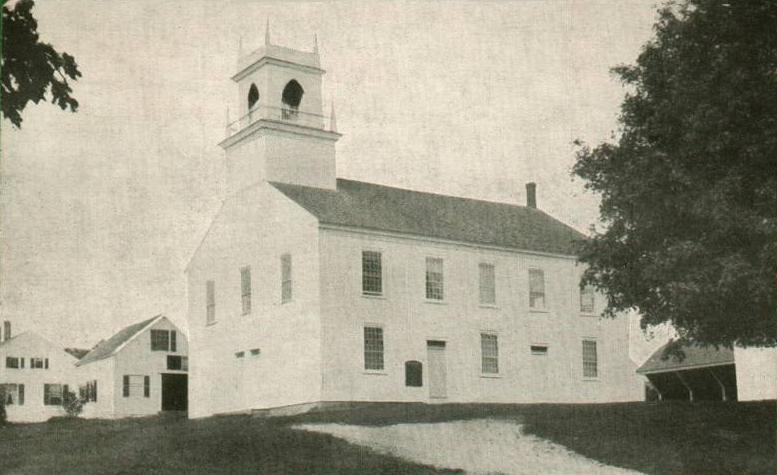 Town Hall, Weare, New Hampshire; from a c. 1915 postcard published by Frank W. Swallow, Exeter, New Hampshire. The former Universalist Church was built in 1837.